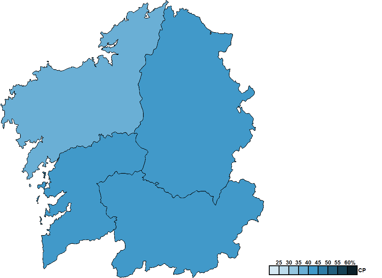 Provincial results for the 1985 Galician regional election.